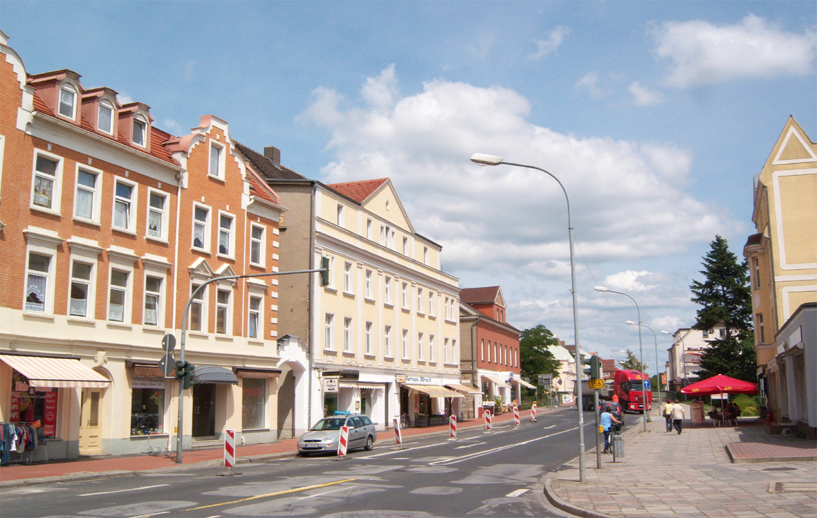 Weißwasser - City